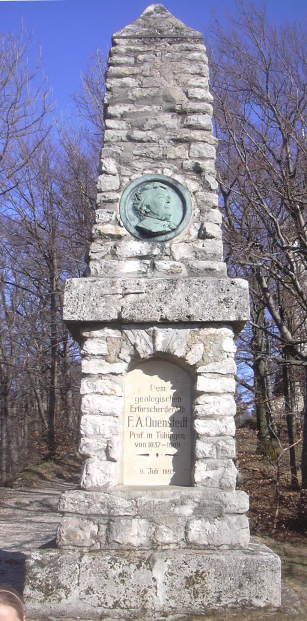 Monument to geologist Friedrich August Quenstedt on the Roßberg, a hill of the Swabian Jura, Germany